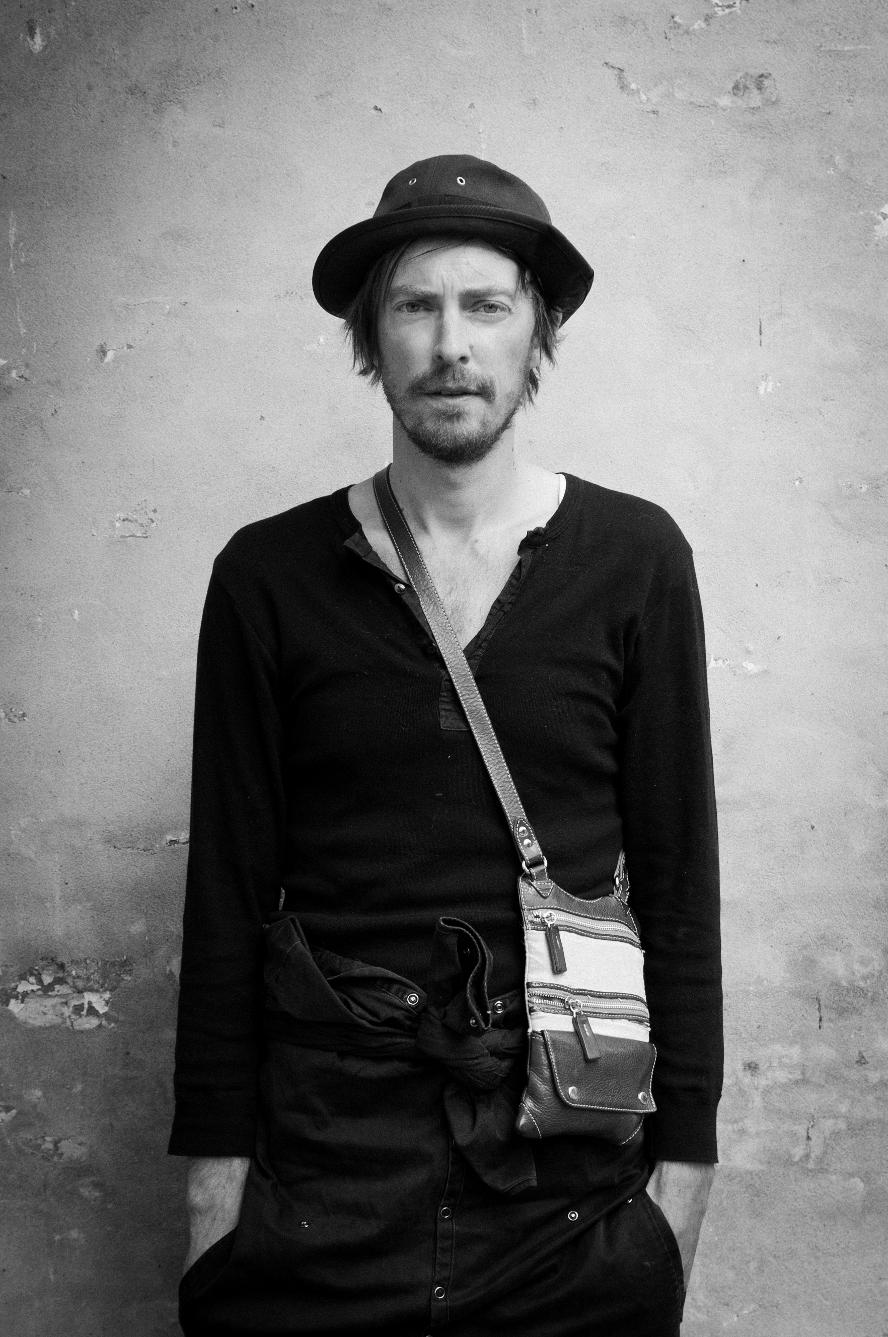 Three-quarter frontal portrait of Danish Designer Henrik Vibskov